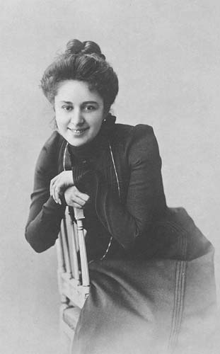 Russian actress Mariya Andreeva